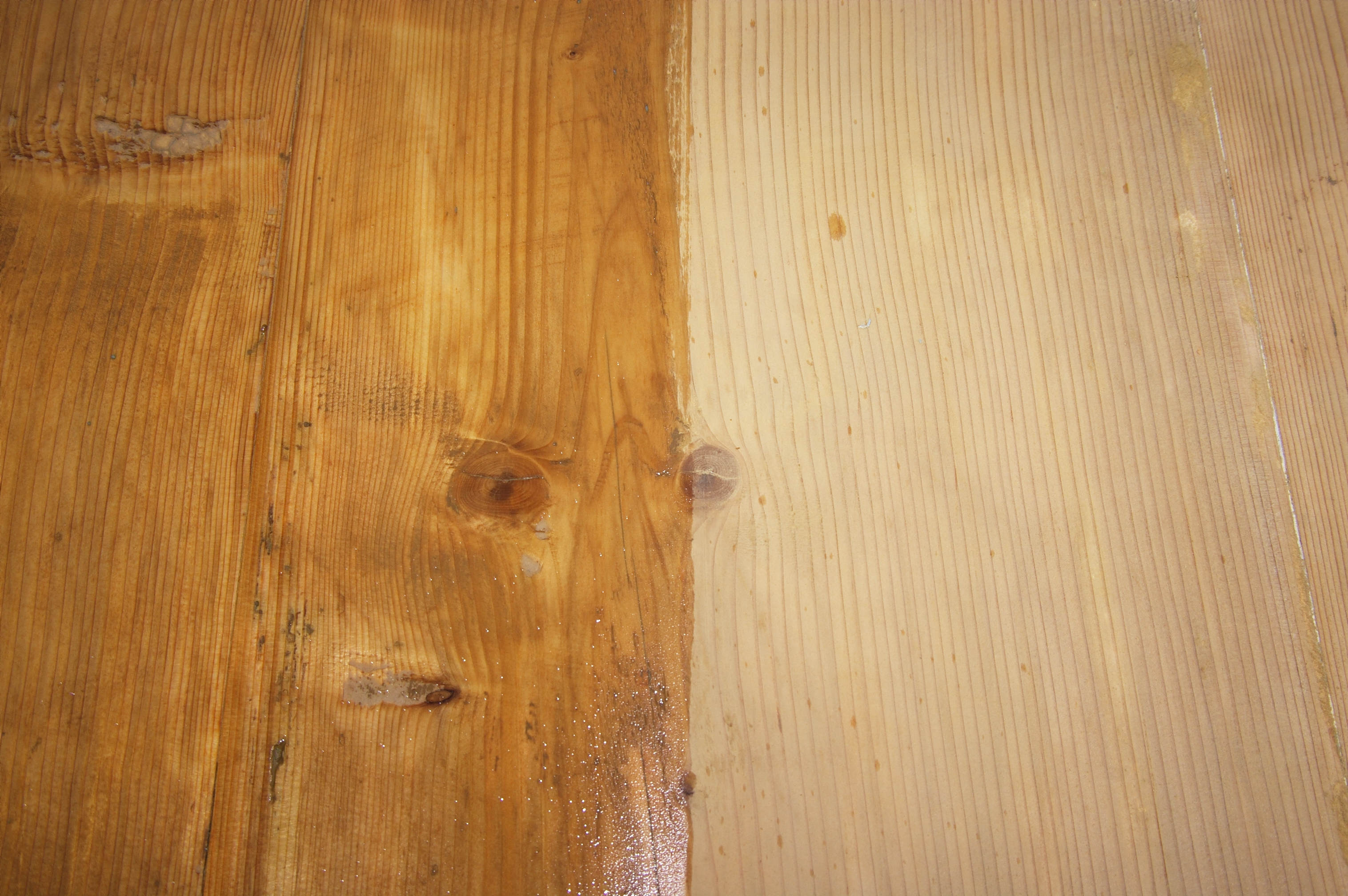 Wood panel half painted with a first coat of boiled linseed oil (left side)